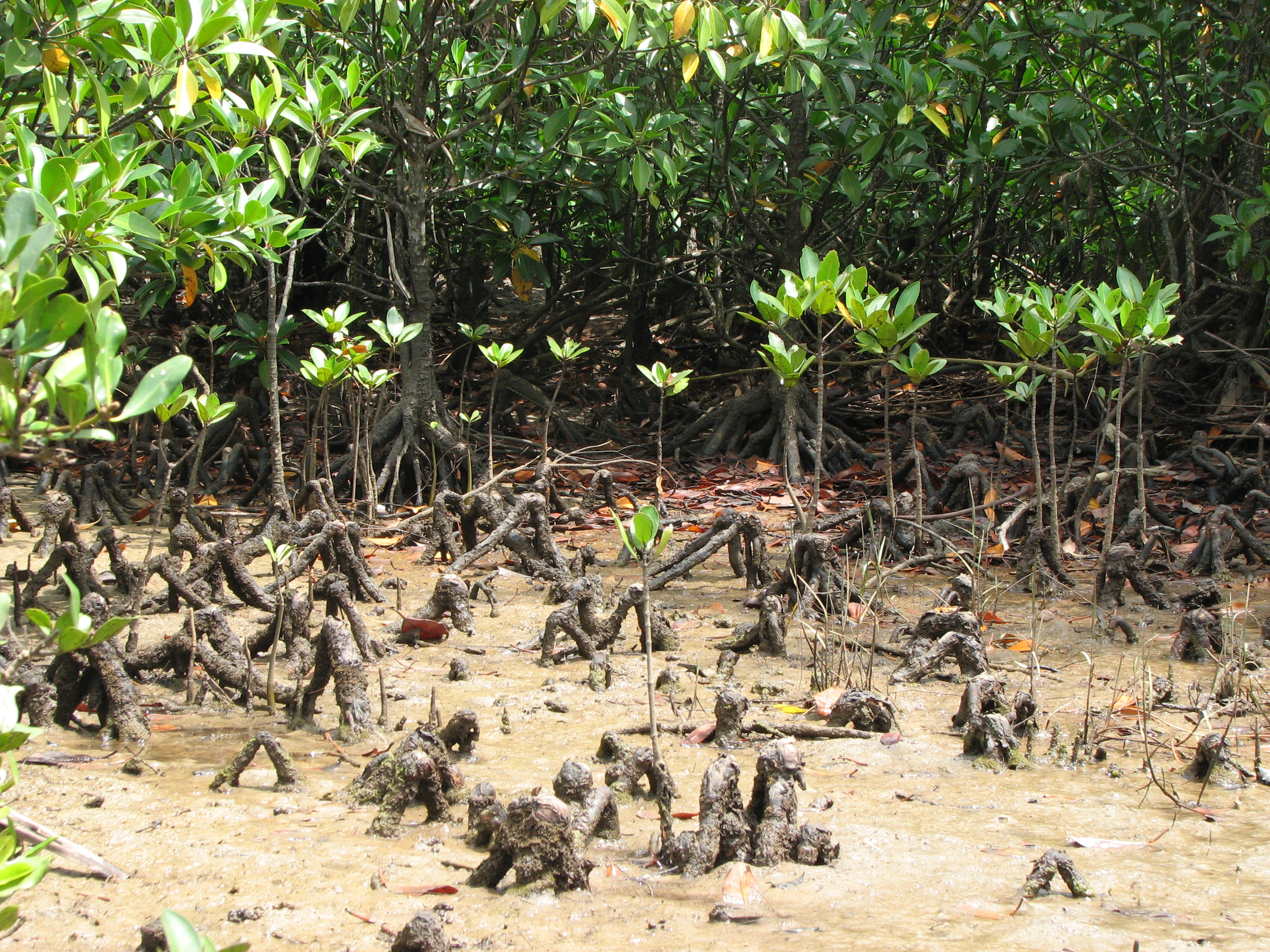 Bruguiera gymnorhiza roots at Iriomote is. Okinawa, Japan